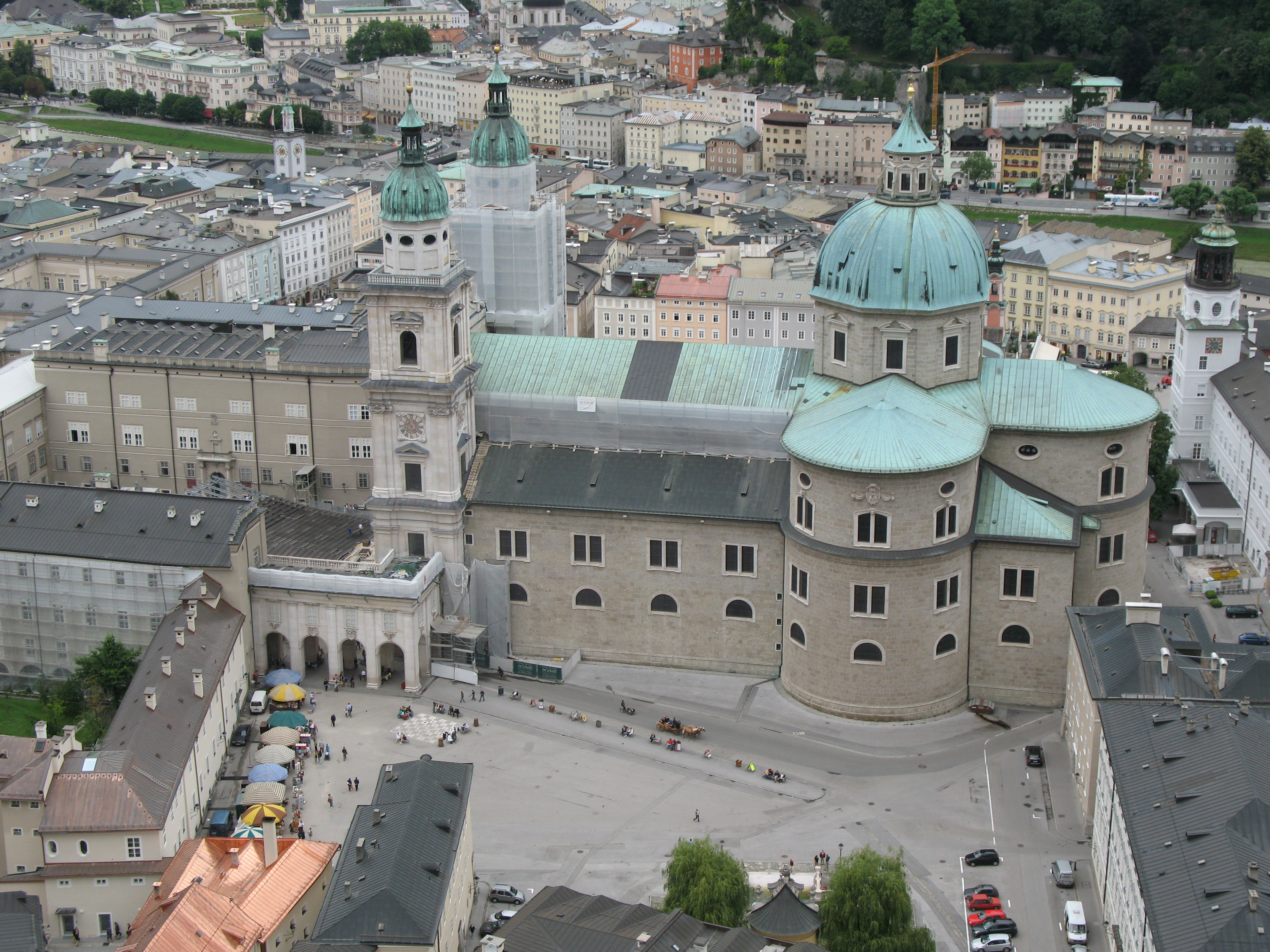 Cathedral and Capital Square, Salzburg, Austria